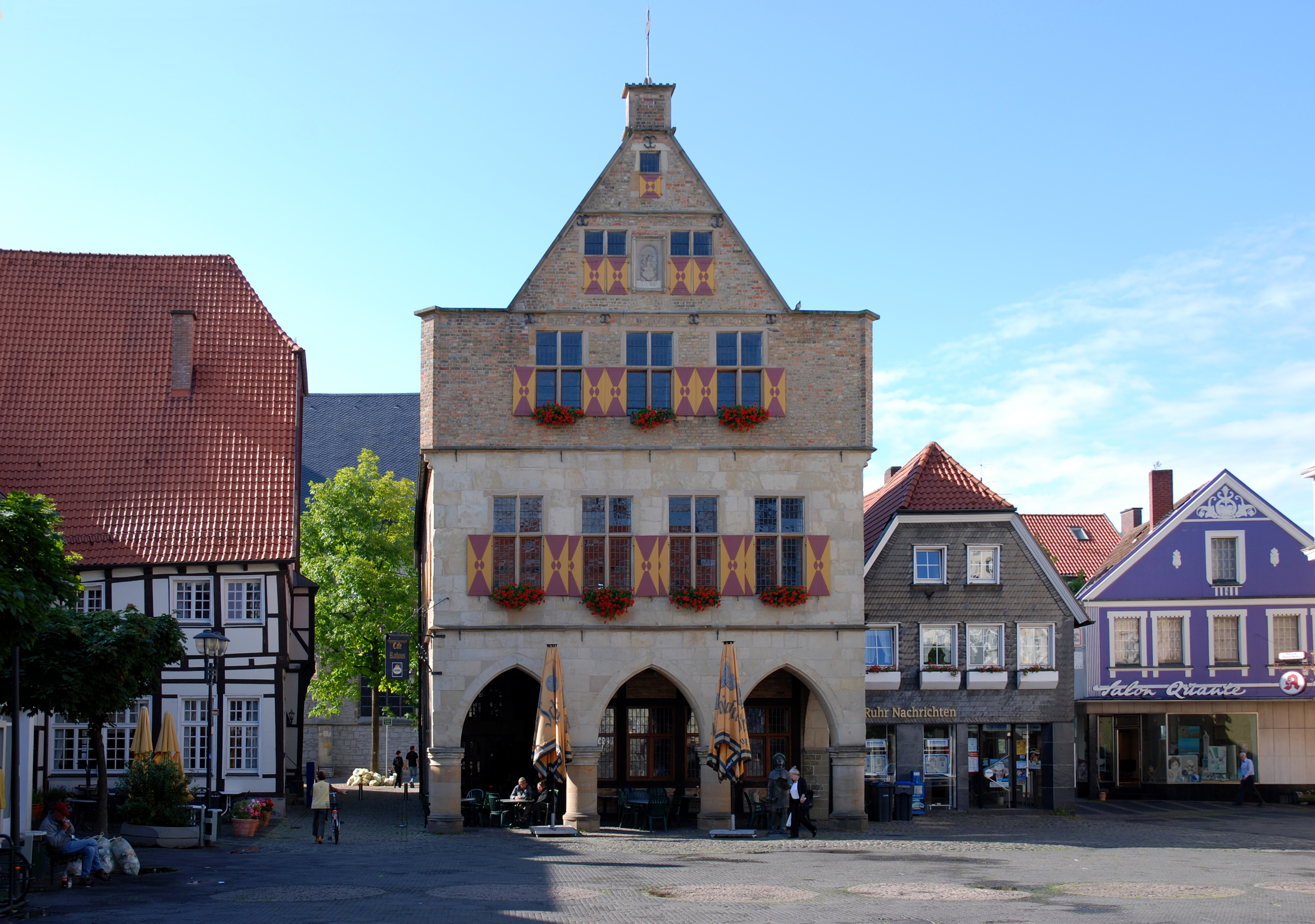 Town hall and market place of Werne